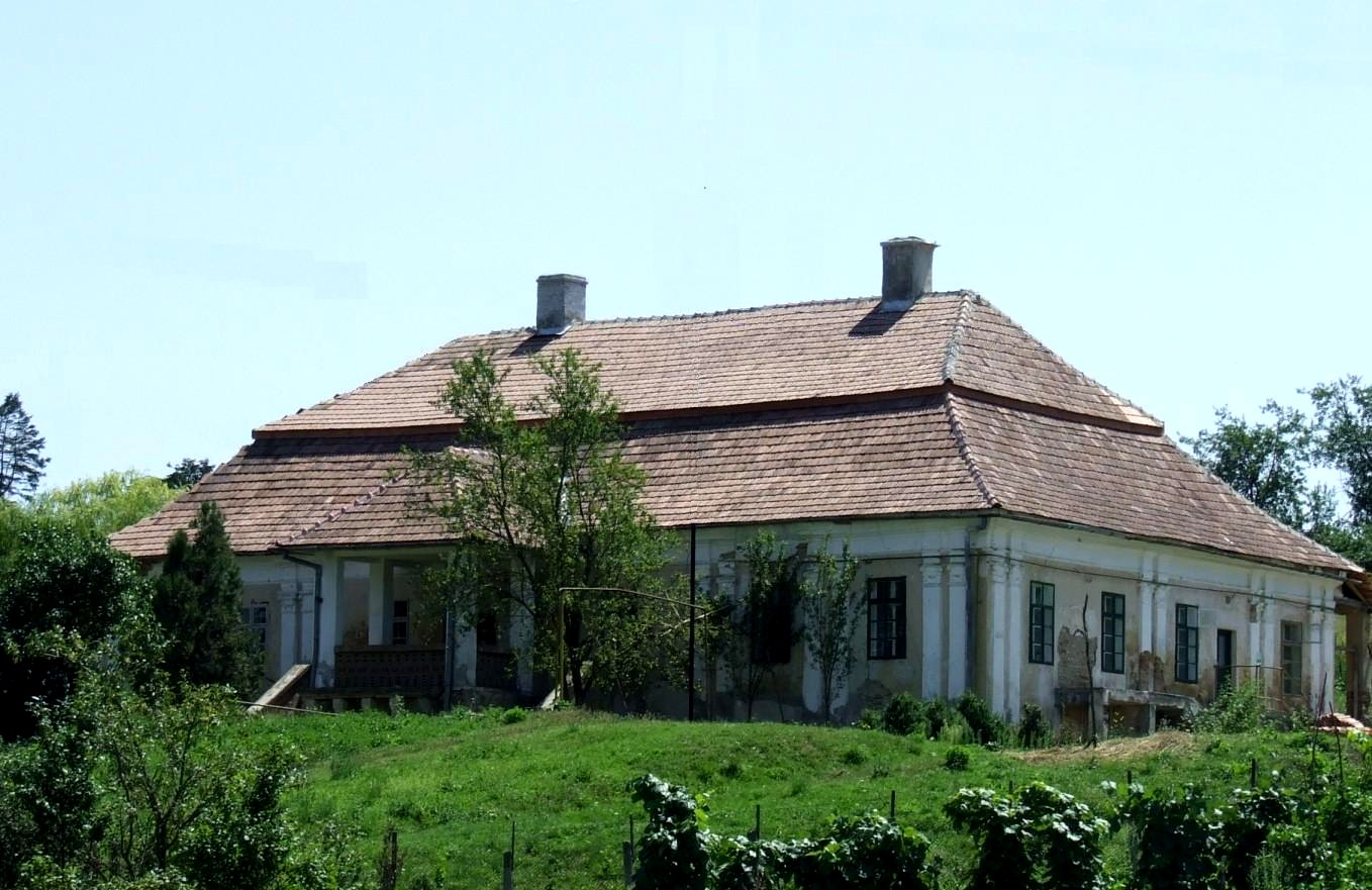 Wass castle in Ţaga commune, Cluj County, Romania